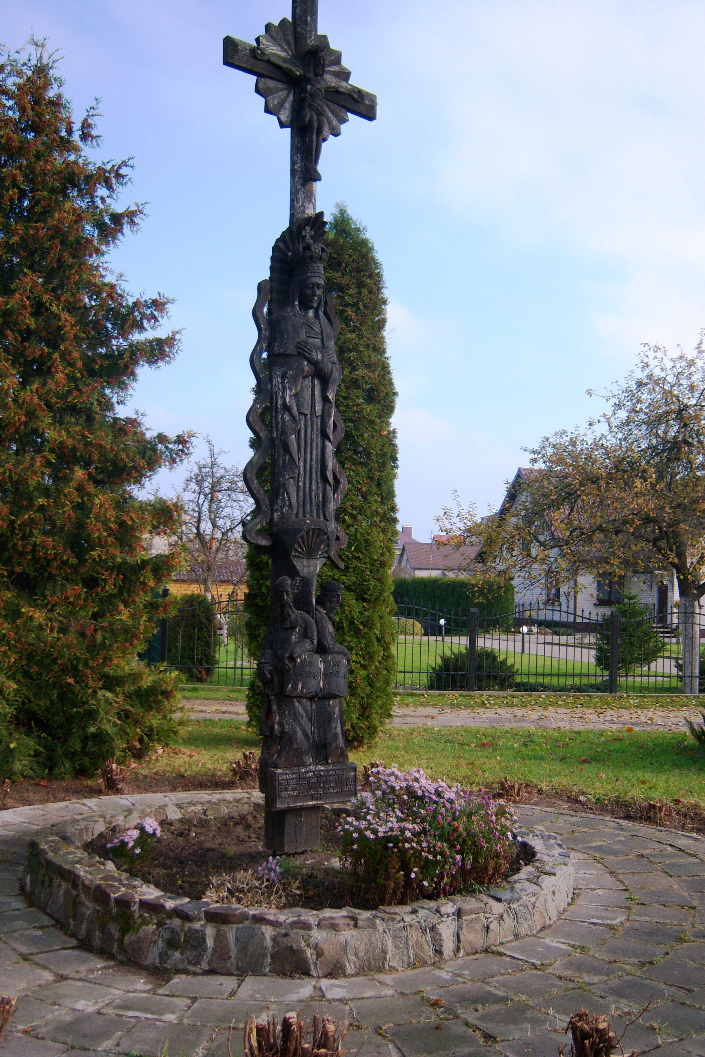 Šlienava, cross, Kaunas District. Lithuania